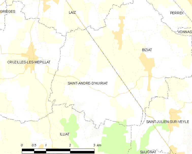 Map of French commune: Saint-André-d'Huiriat Map commune FR insee code 01334.png